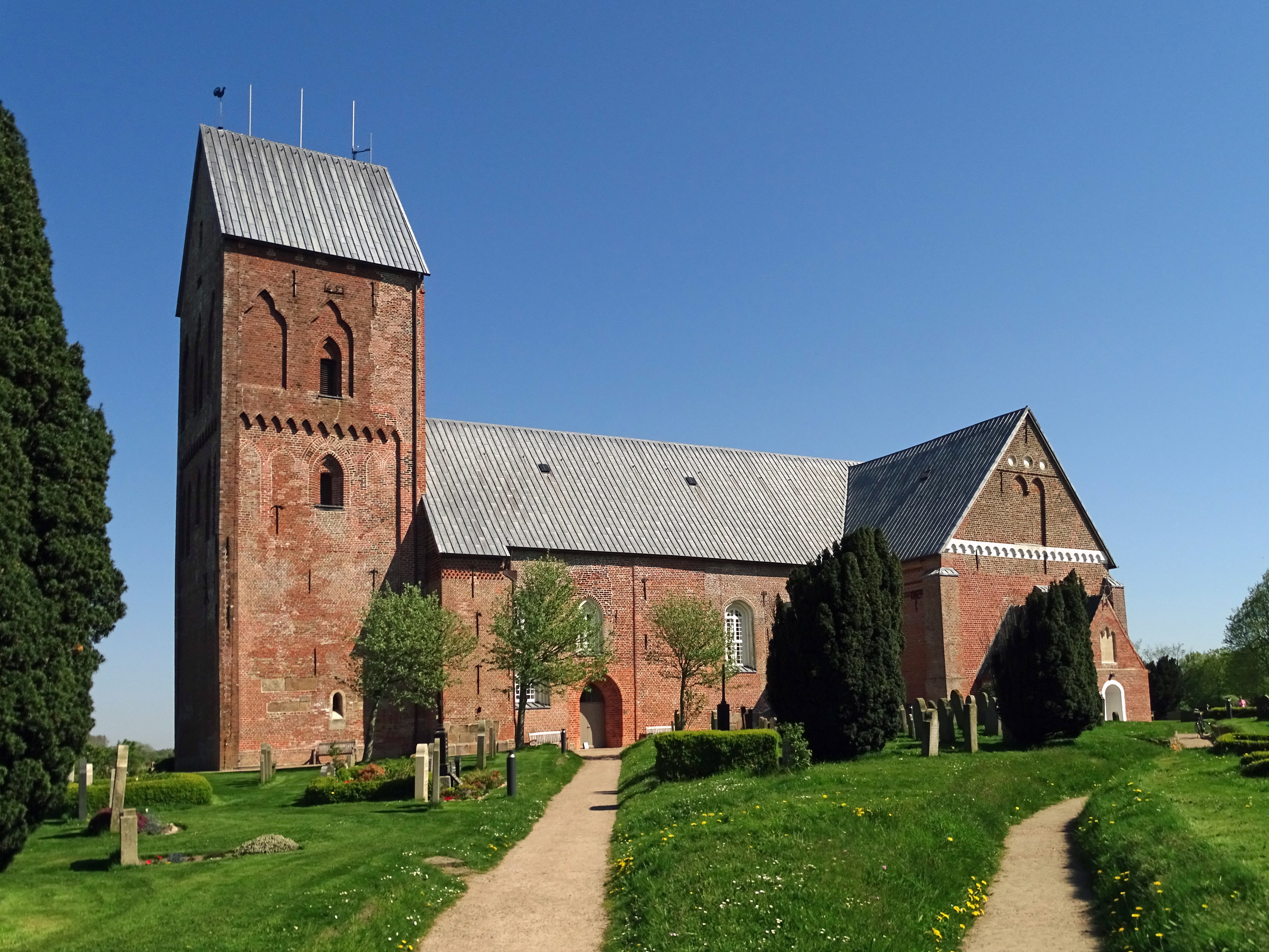 This is a photograph of an architectural monument. - Kirche St. Johannes Südseite - Foto von 2018